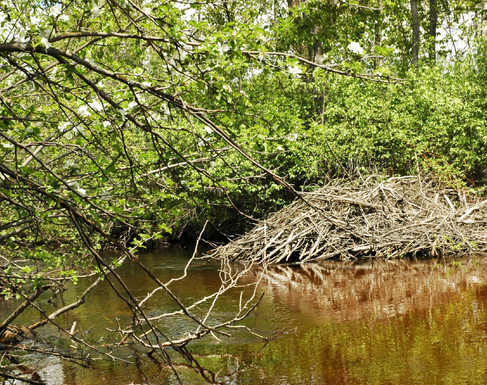 Right down the stream from my apartment lies a beaver dam. I haven't seen any of them yet though.Beaver Dam